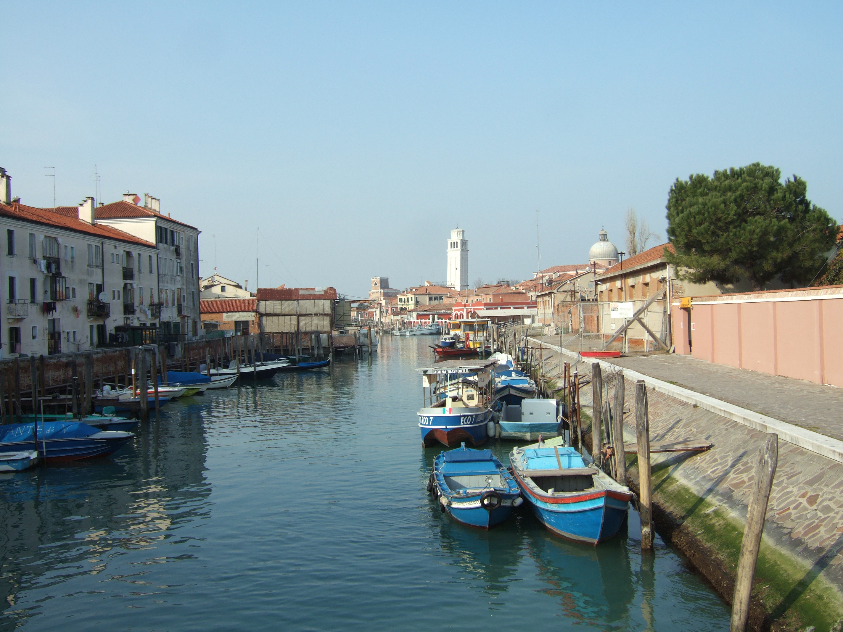 Rio dei Giardini north of Ponte del Paludo (Venice)